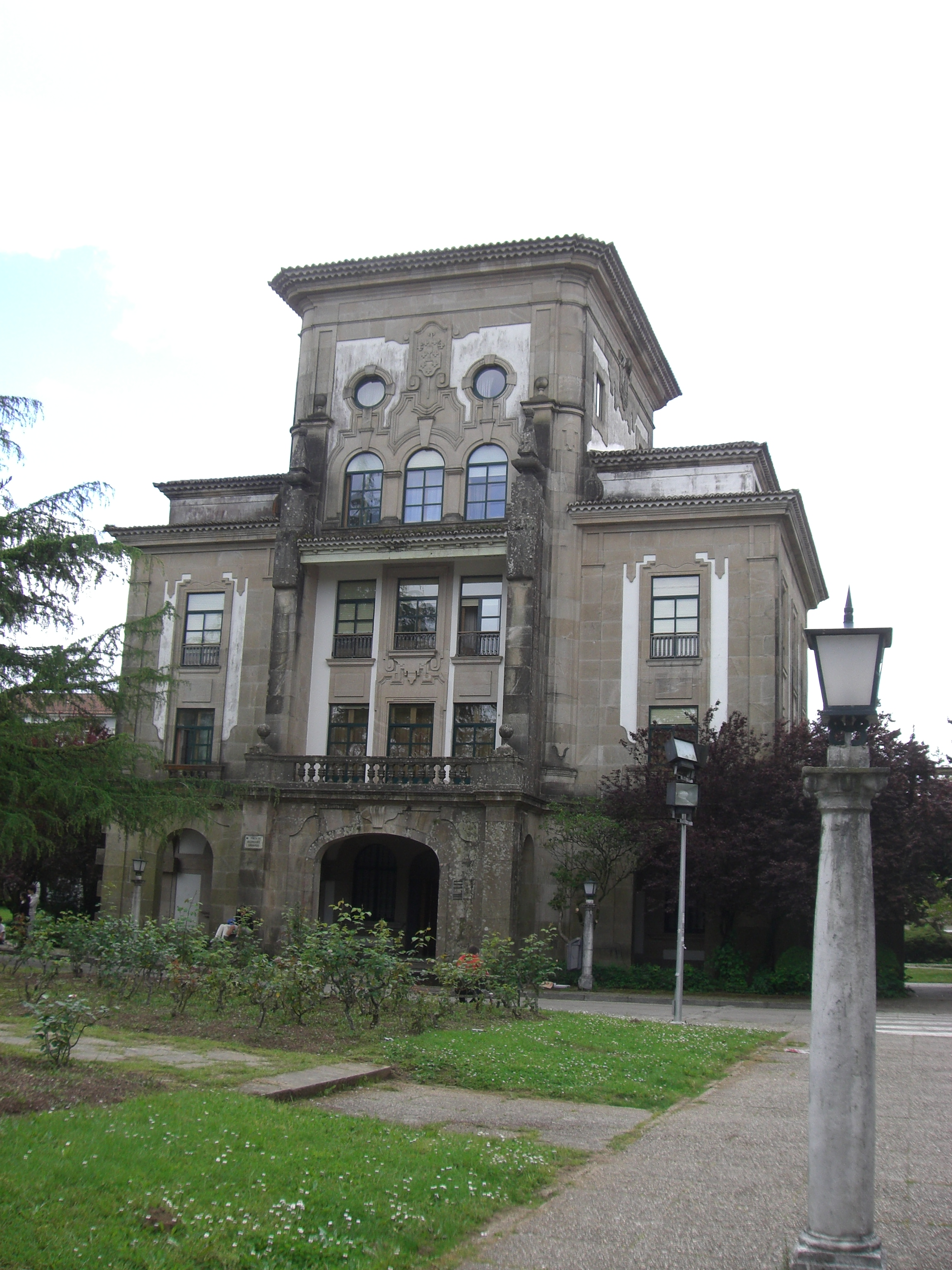 A view of the front wall of Colexio Maior San Clemente